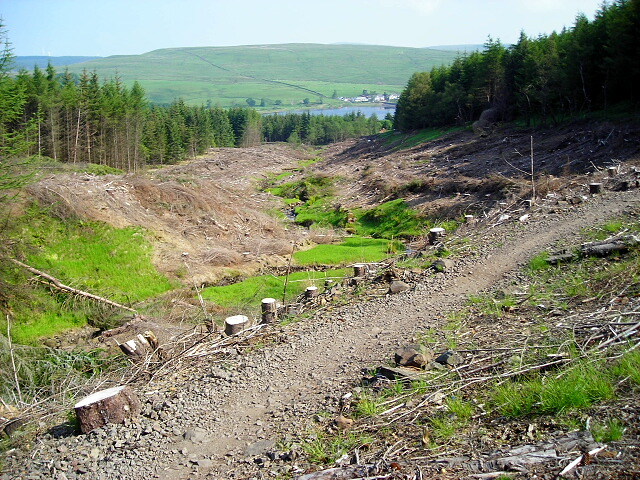 Cleared Area in Carron Valley Forest Viewpoint accessed by cycle trail